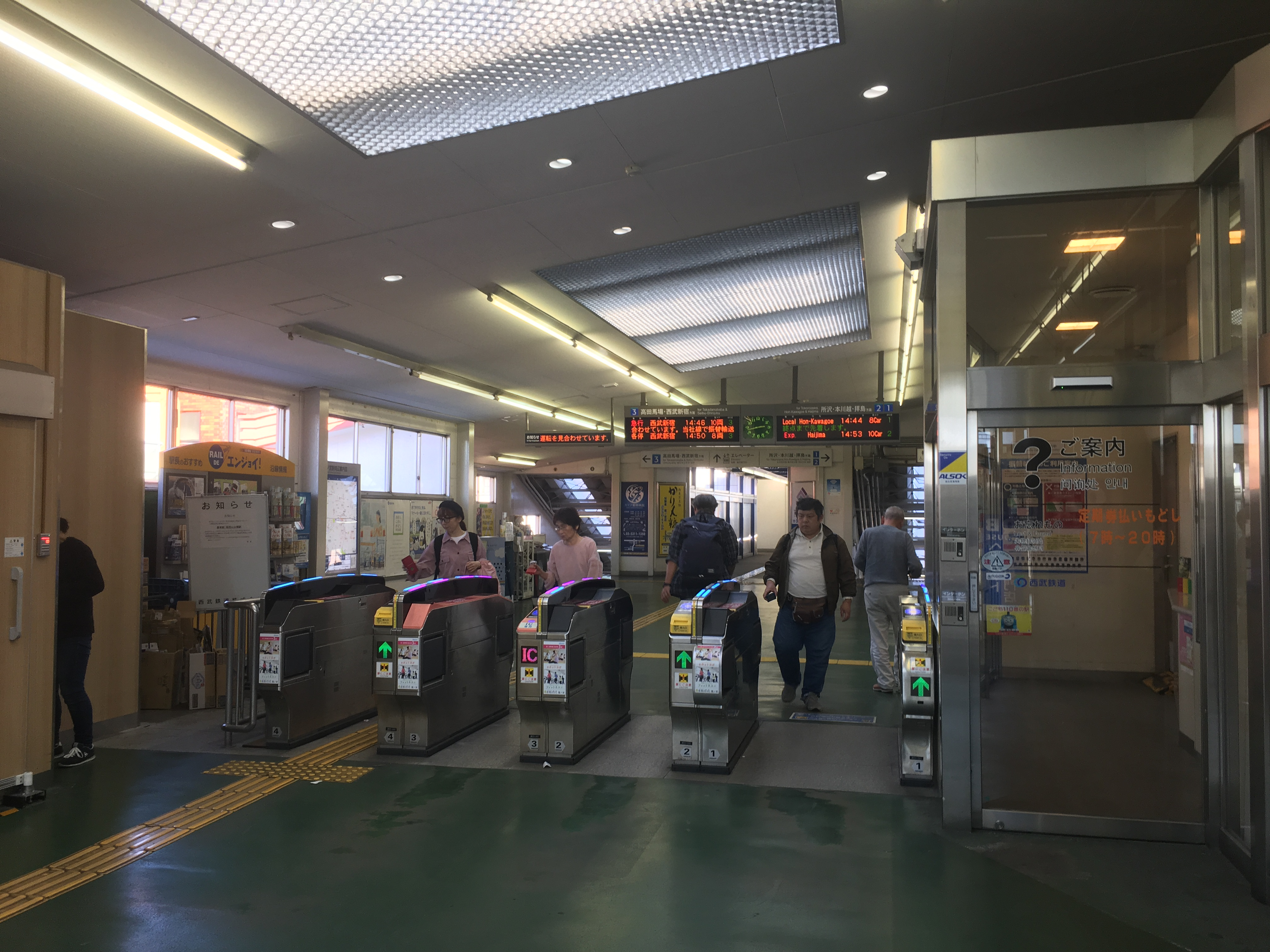 鷺ノ宮駅の改札 (Saginomiya Station ticket gates)